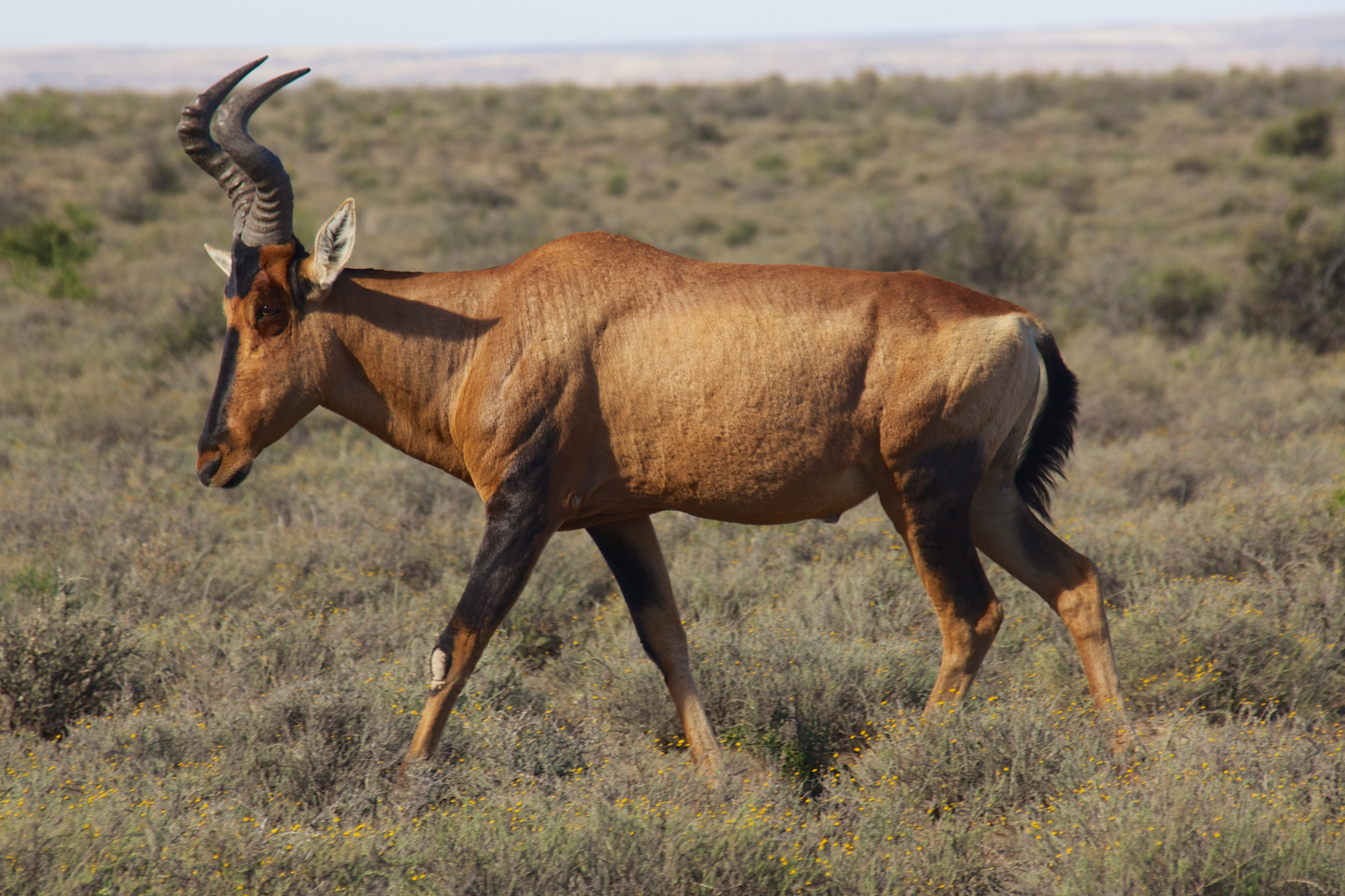 Karoo National Park, South Africa